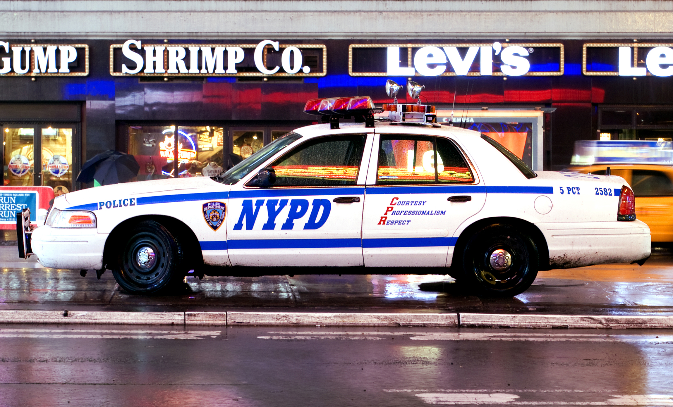 A N.Y.P.D. Crown Victoria parked on Times Square in New York City, United States of America.